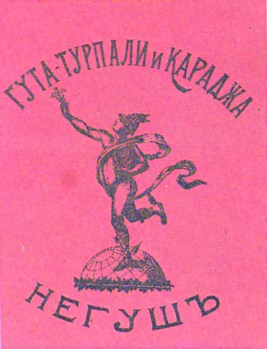 Gkoutas, Tourpalis and Karadzia Advertisement, Negush, present day Naousa